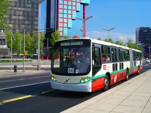 Metrobús (Mexico City)